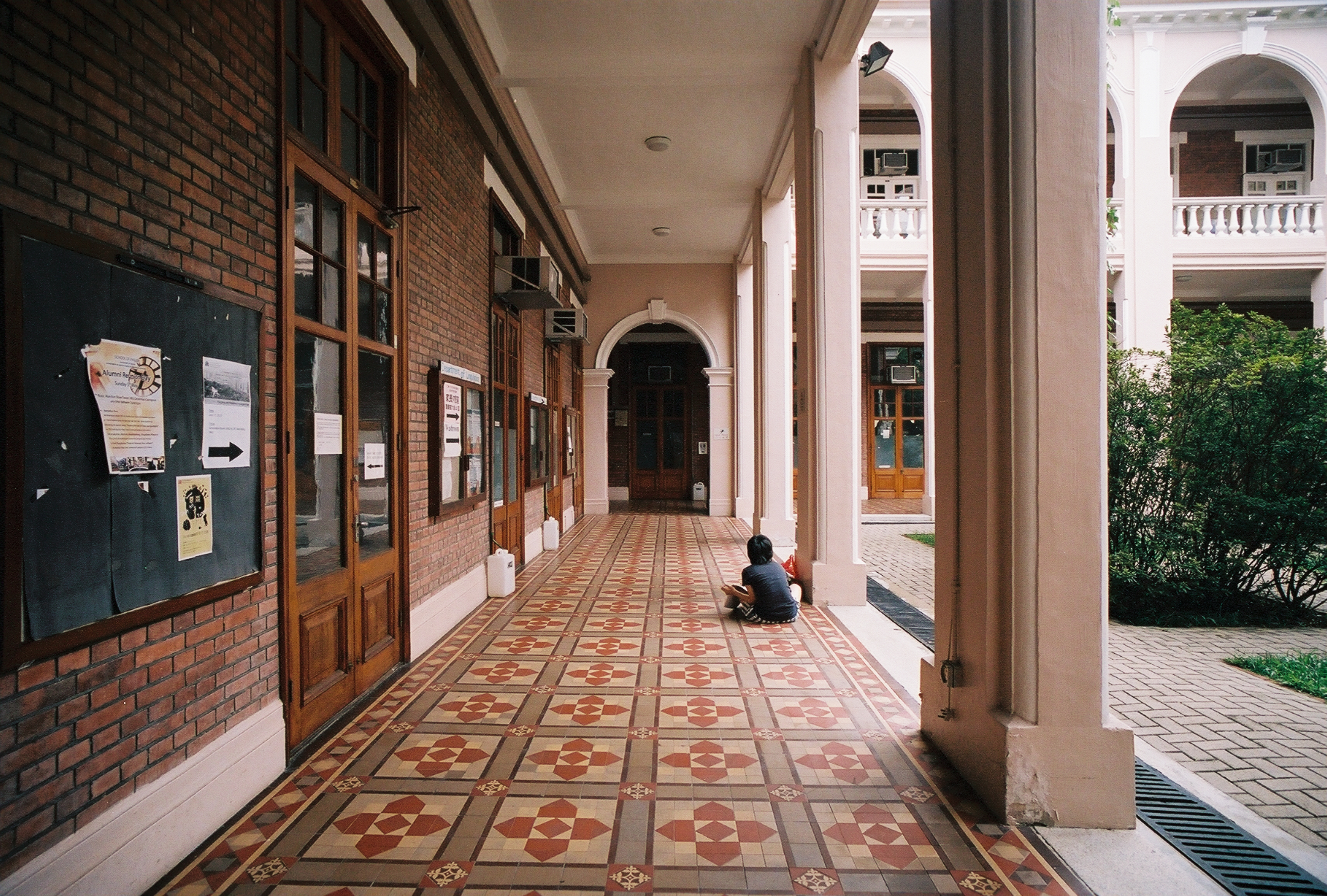 As title.